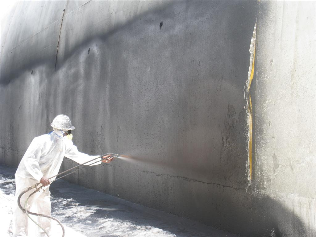 Applying waterproofing material to the outside of a tunnel